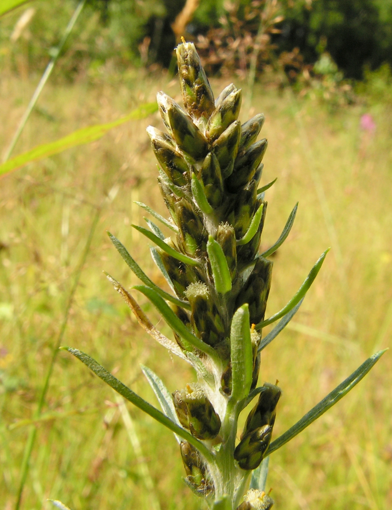 The inflorescence of Gnaphalium sylvaticum [syn. Omalotheca sylvatica]. Moscow region, Russia.